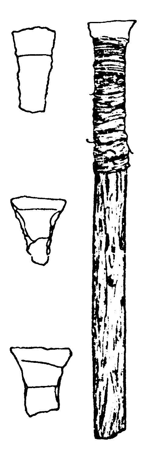 Tvæmose's prehistoric arrow